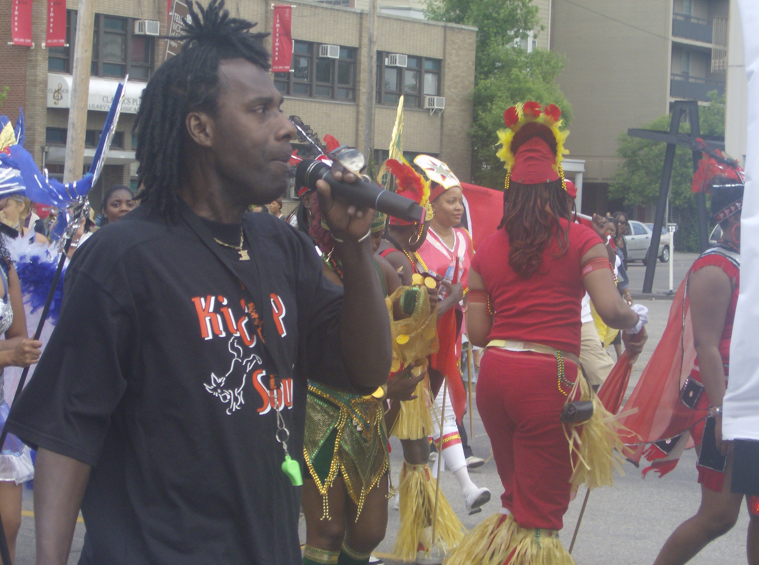 A performer near the end of the opening parade of Carifest 2007 in Calgary, Alberta, Canada.